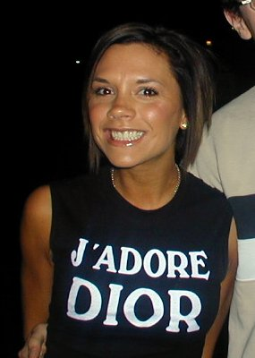 Victoria Beckham